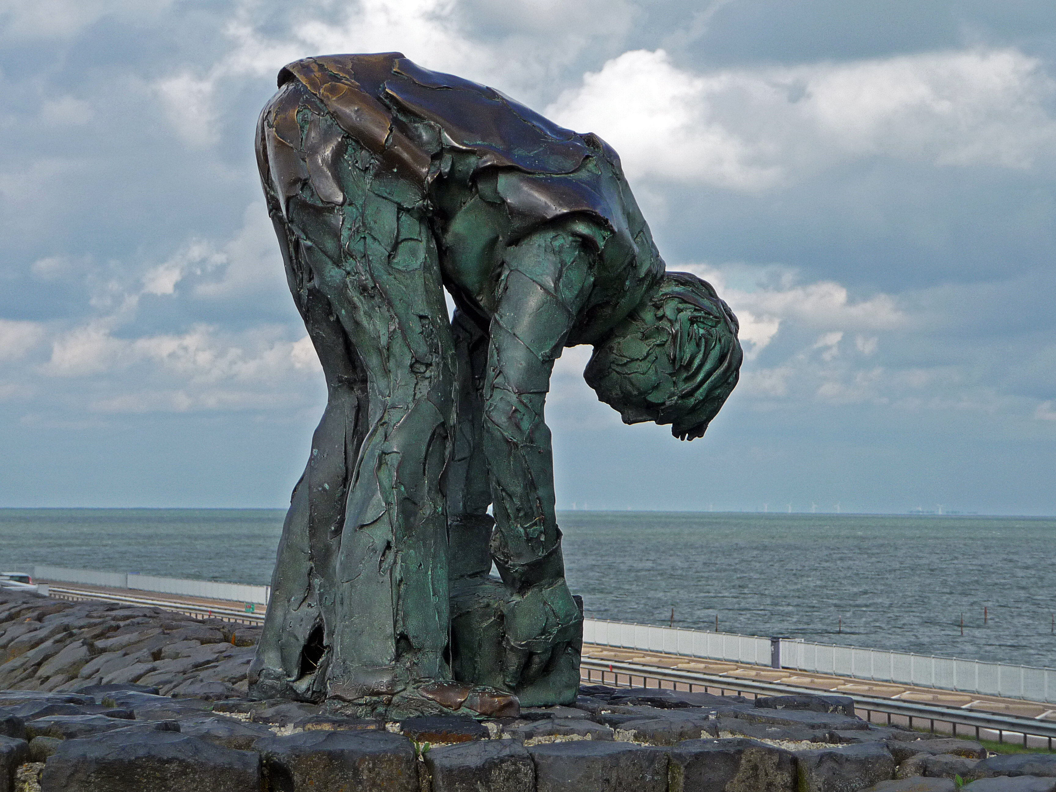 Monument "dike worker" on the Afsluitdijk (A7) in the Netherlands